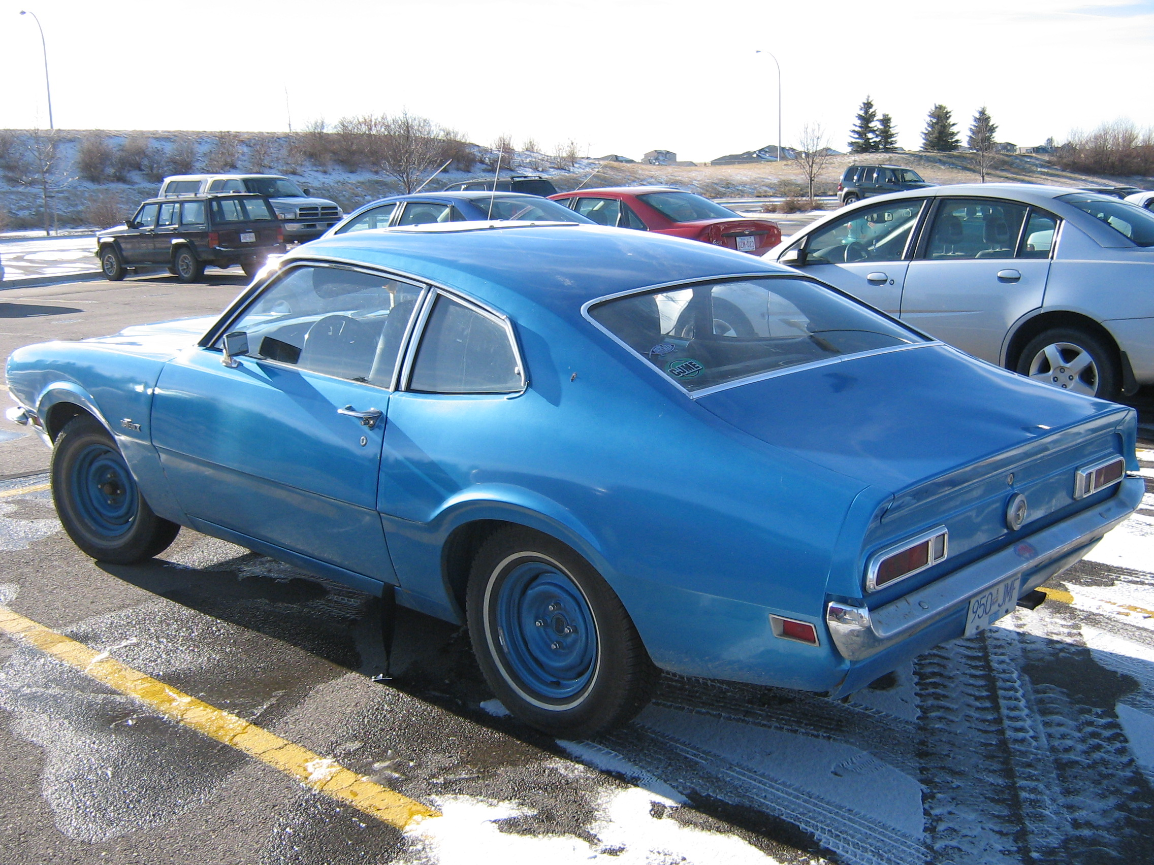 Ford MaverickFord Maverick